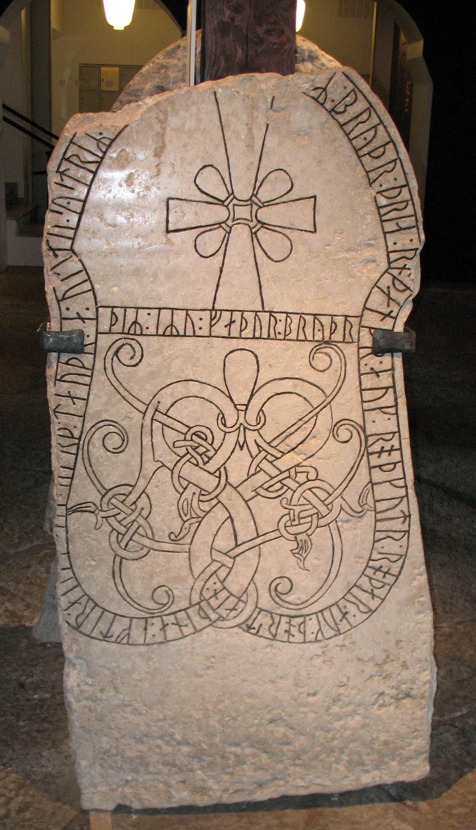 stone